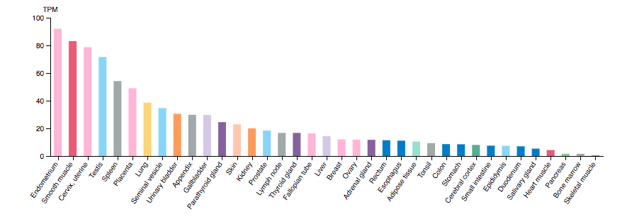 RAI14 RNA expression within human tissues. Image credit: Human Protein Atlas